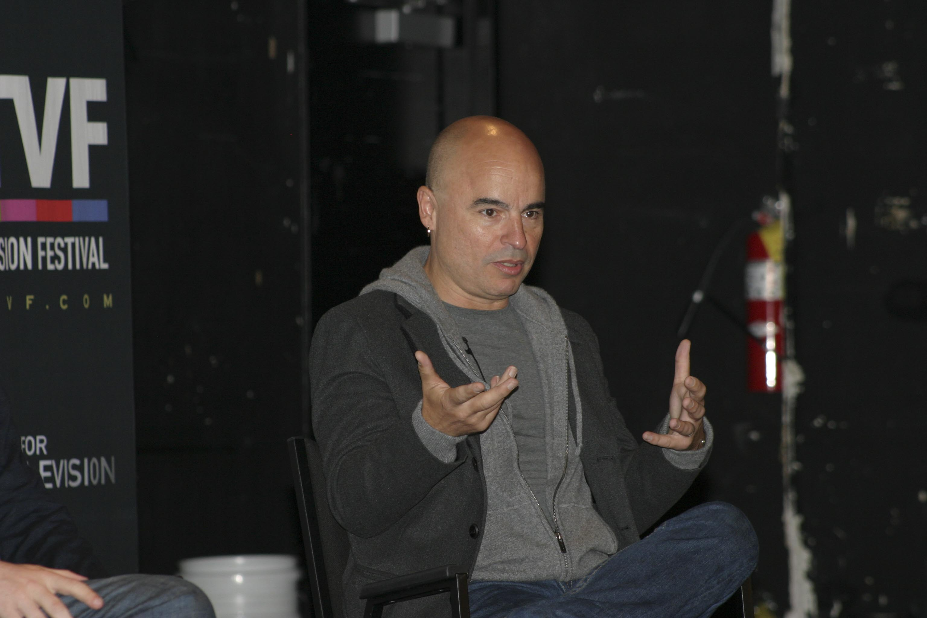 John Riggi at the 2009 NYTVF. © Rubenstein, photographer Martyna Borkowski